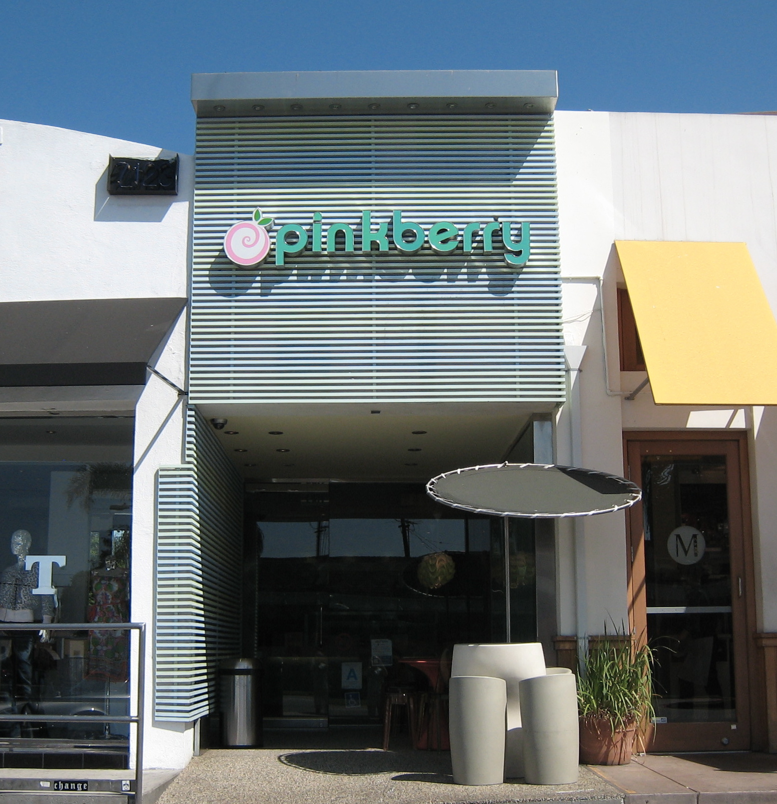 Pinkberry restaurant on Melrose in Los Angeles, California